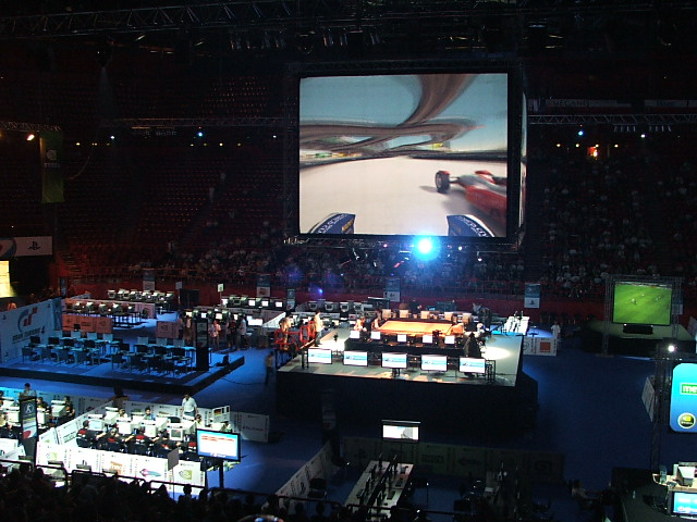 ESWC Final 2006, Palais Omnisports of Paris Bercy